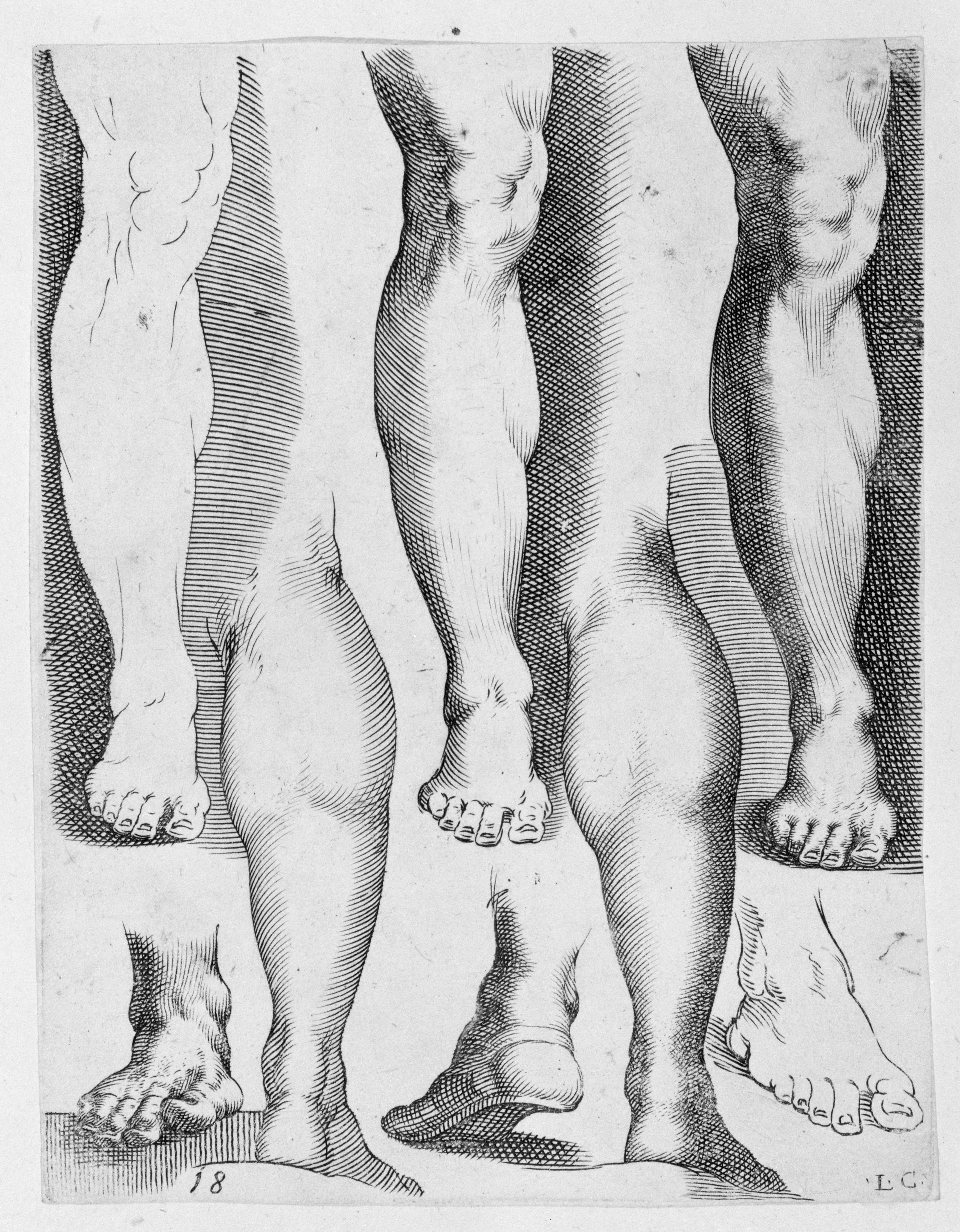 Print; Prints